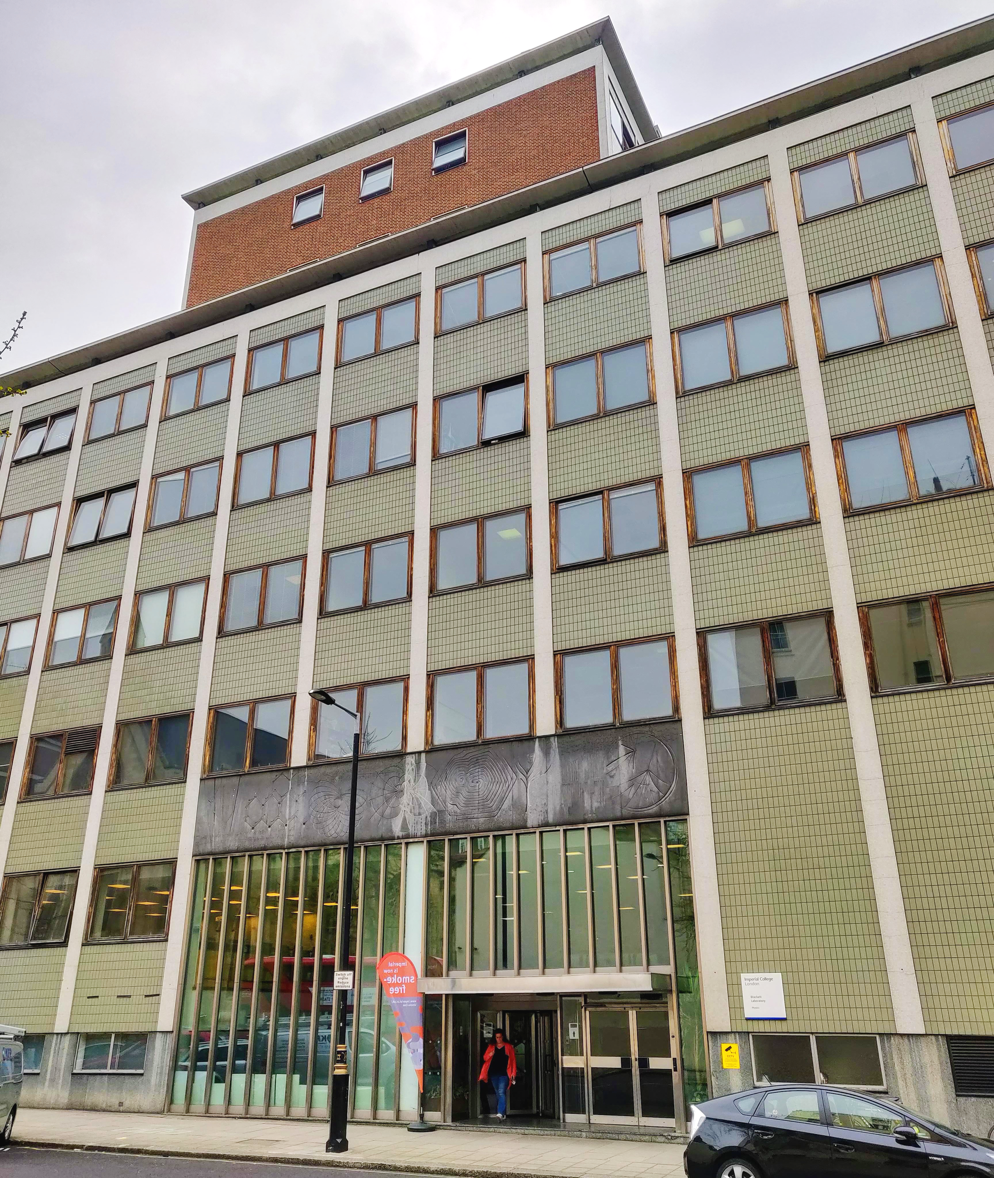 The Blackett Laboratory, Prince Consort Road, at Imperial College London is home to the Department of Physics